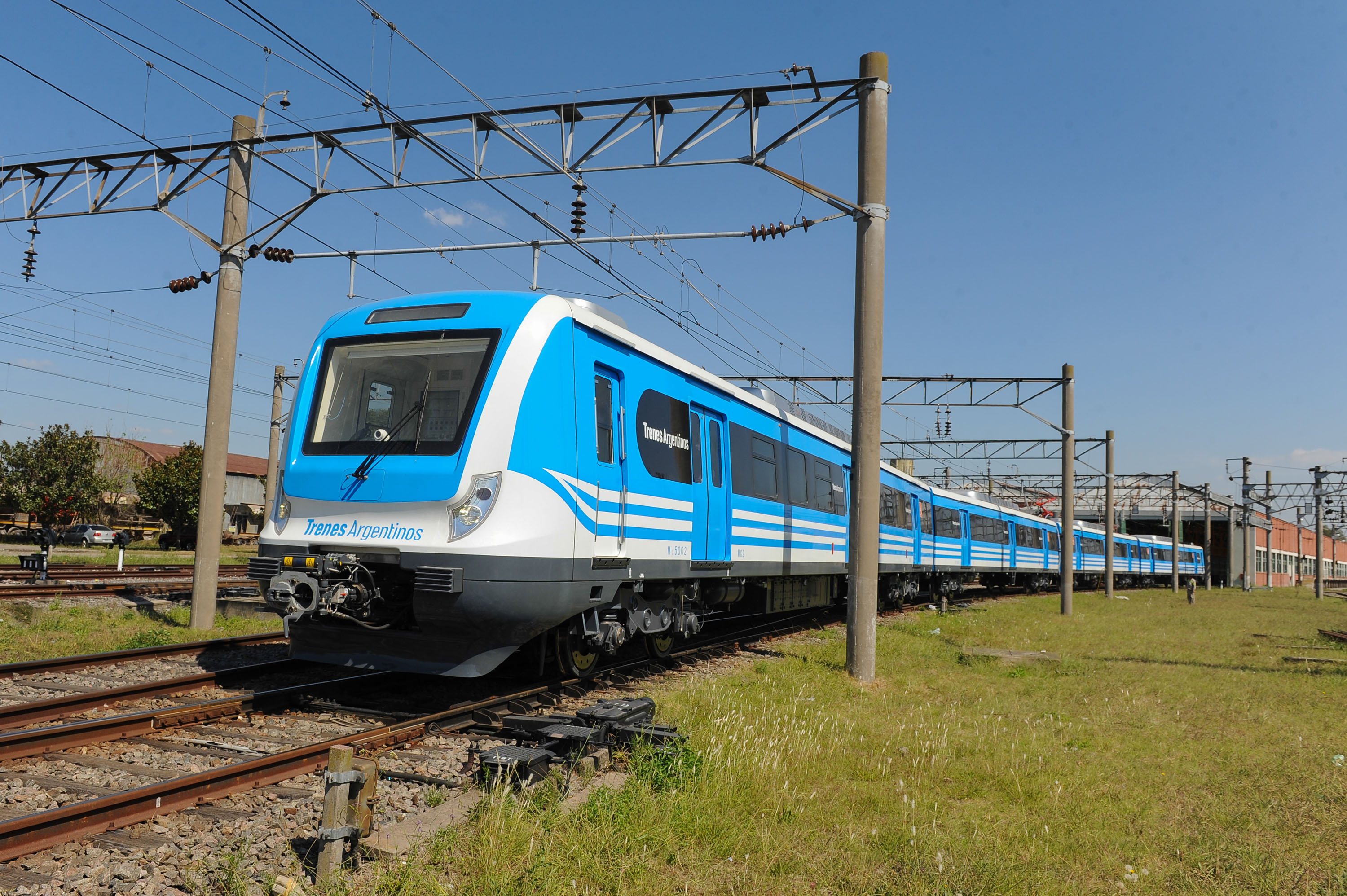 New electric trains for the Roca Line in Buenos Aires